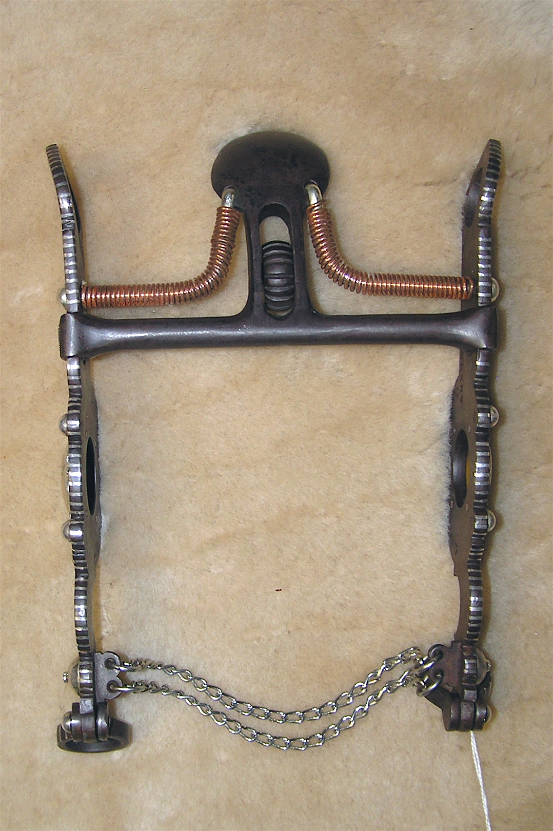 A classic style full spade bit. Image taken with staff permission at Three Forks Saddlery, Three Forks, MT